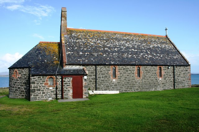 Kilchoman Parish Church The new church of Kilchoman built in 1899.